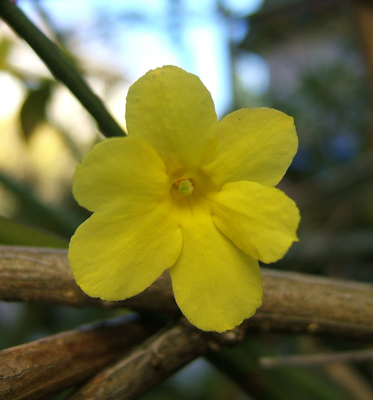 Winter Jasmine